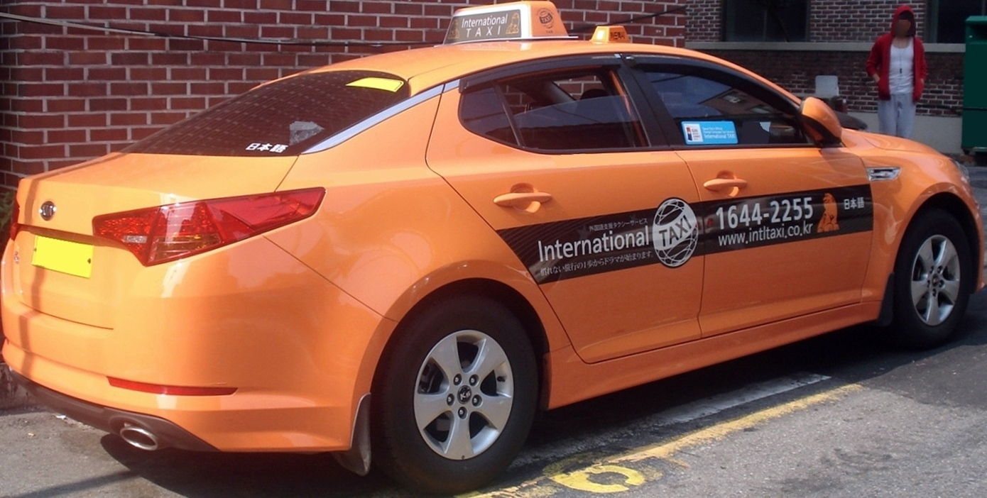 Kia K5